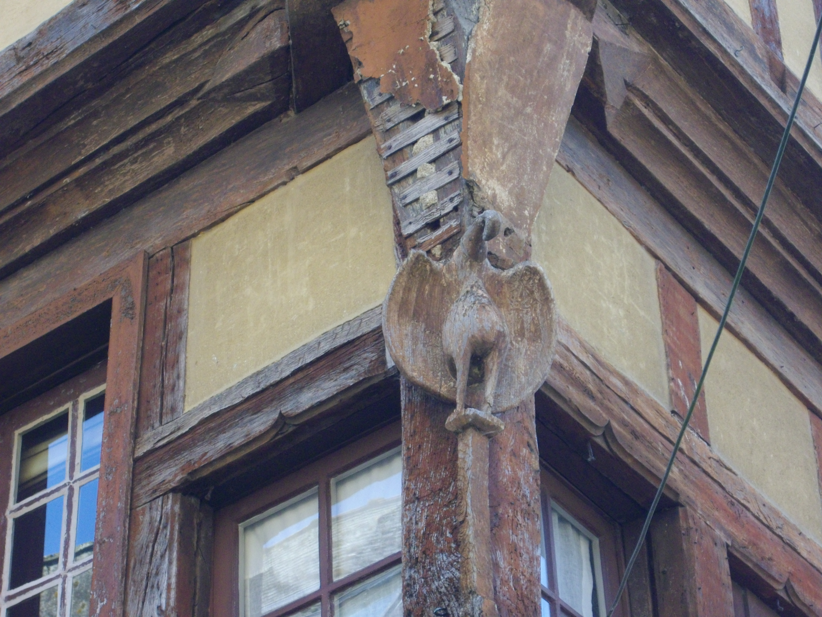 Pelican house, Bouffay square, in Malestroit (Morbihan, France) .